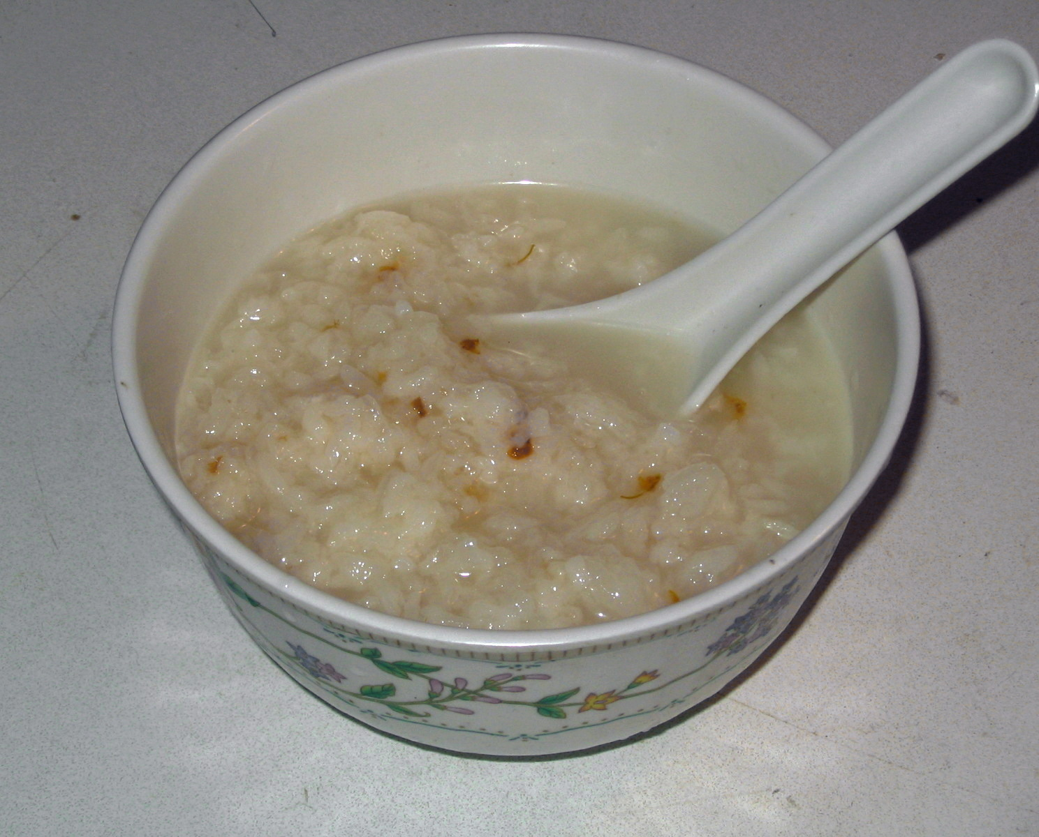 桂花醪糟 (glutinous rice wine with Sweet Osmanthus) 異名:桂花酒釀